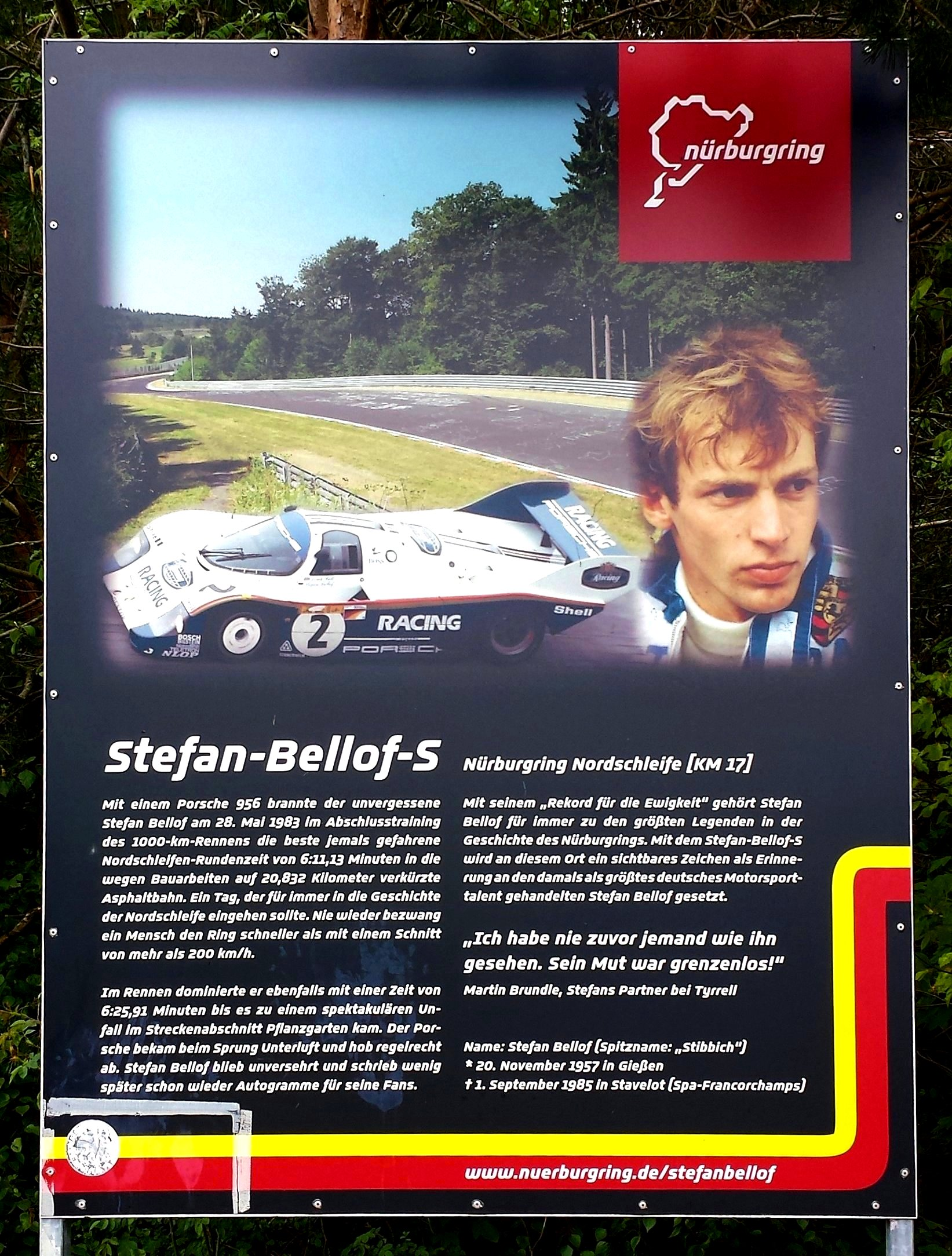 Stefan-Bellof-s Information Board at the Nürburgring